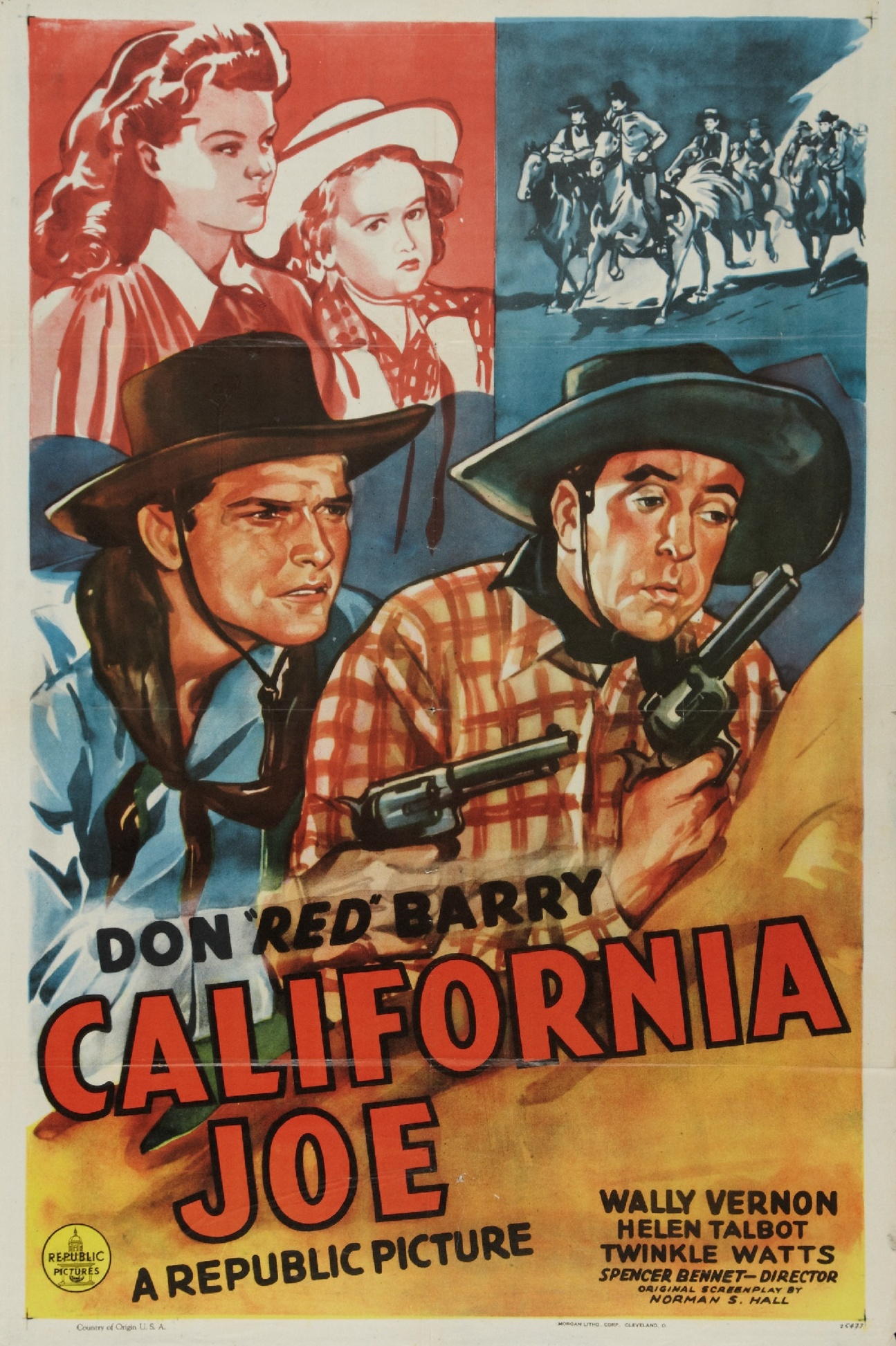 California Joe movie poster. Starring Don "Red" Barry, Wally Vernon, and Helen Talbot.